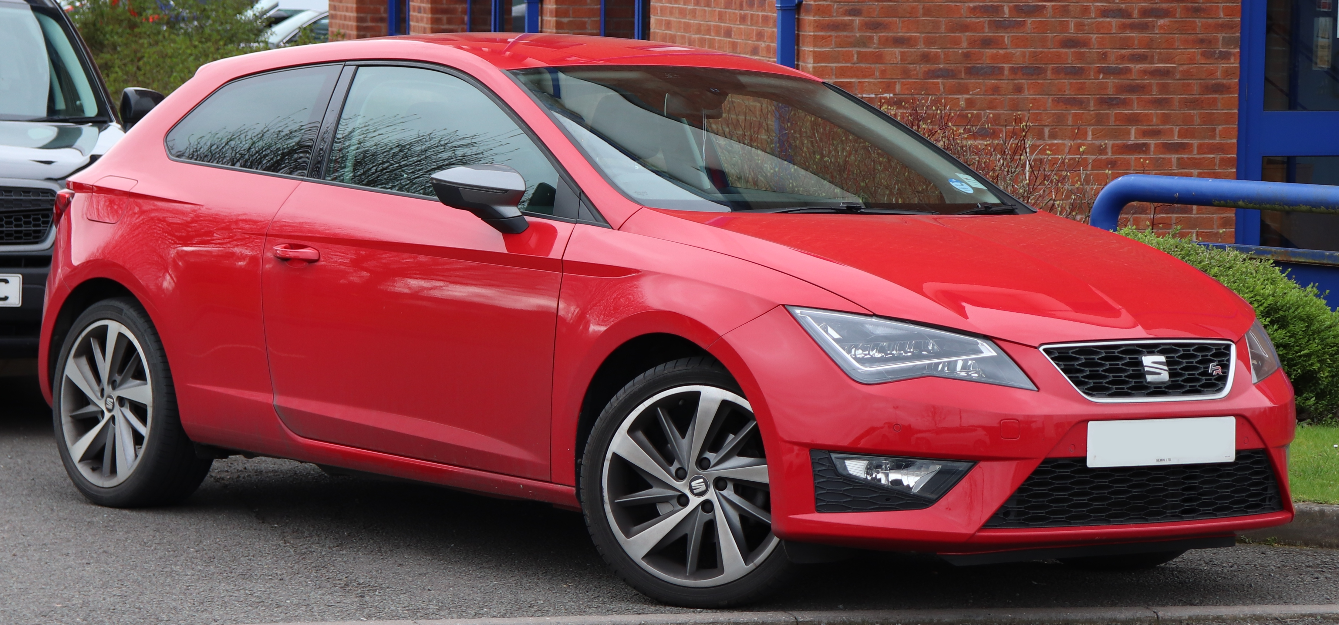 2014 SEAT Leon FR Technology TSi 1.4 Taken in Leamington Spa